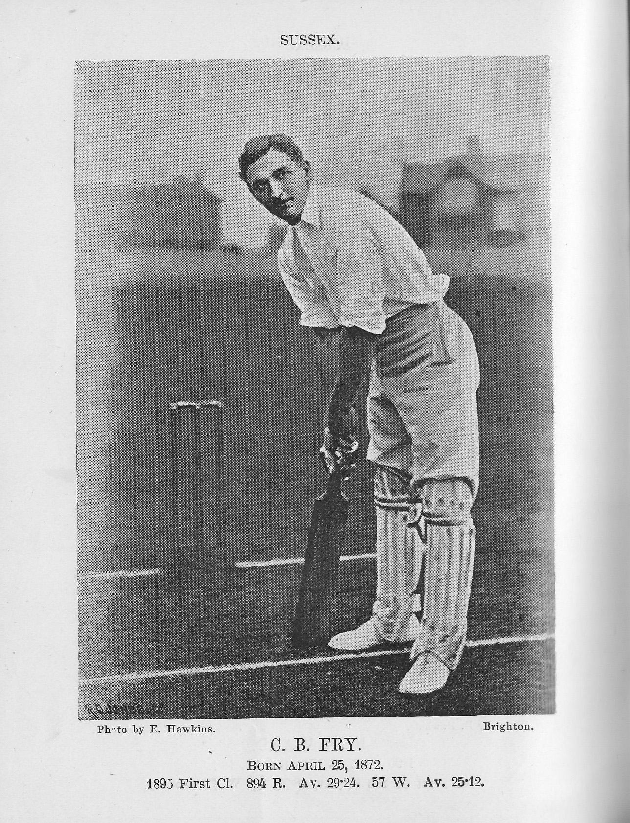 Scan of cricketer C B Fry